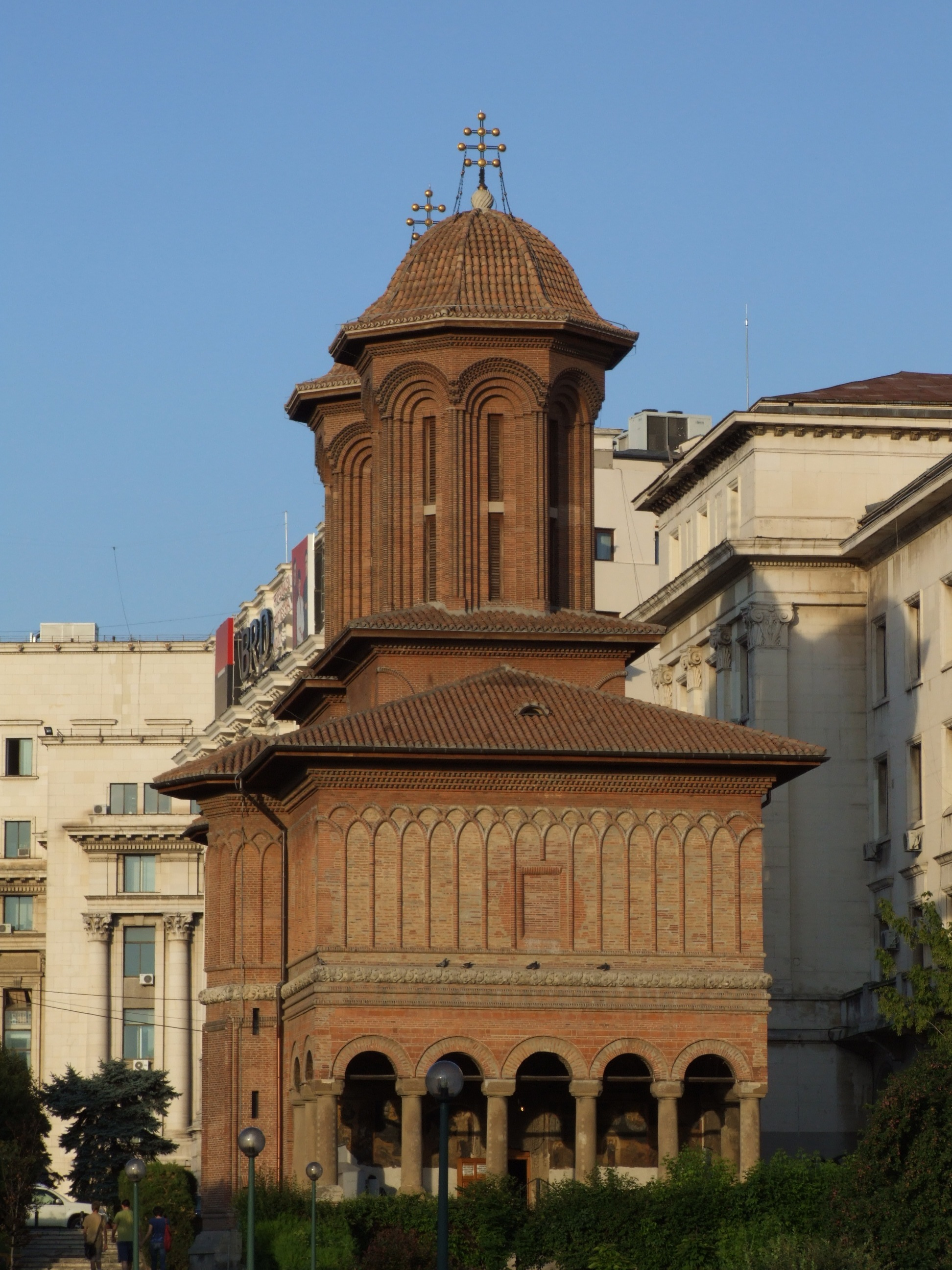 Creţulescu (Kretzulescu) church, Bucharest.